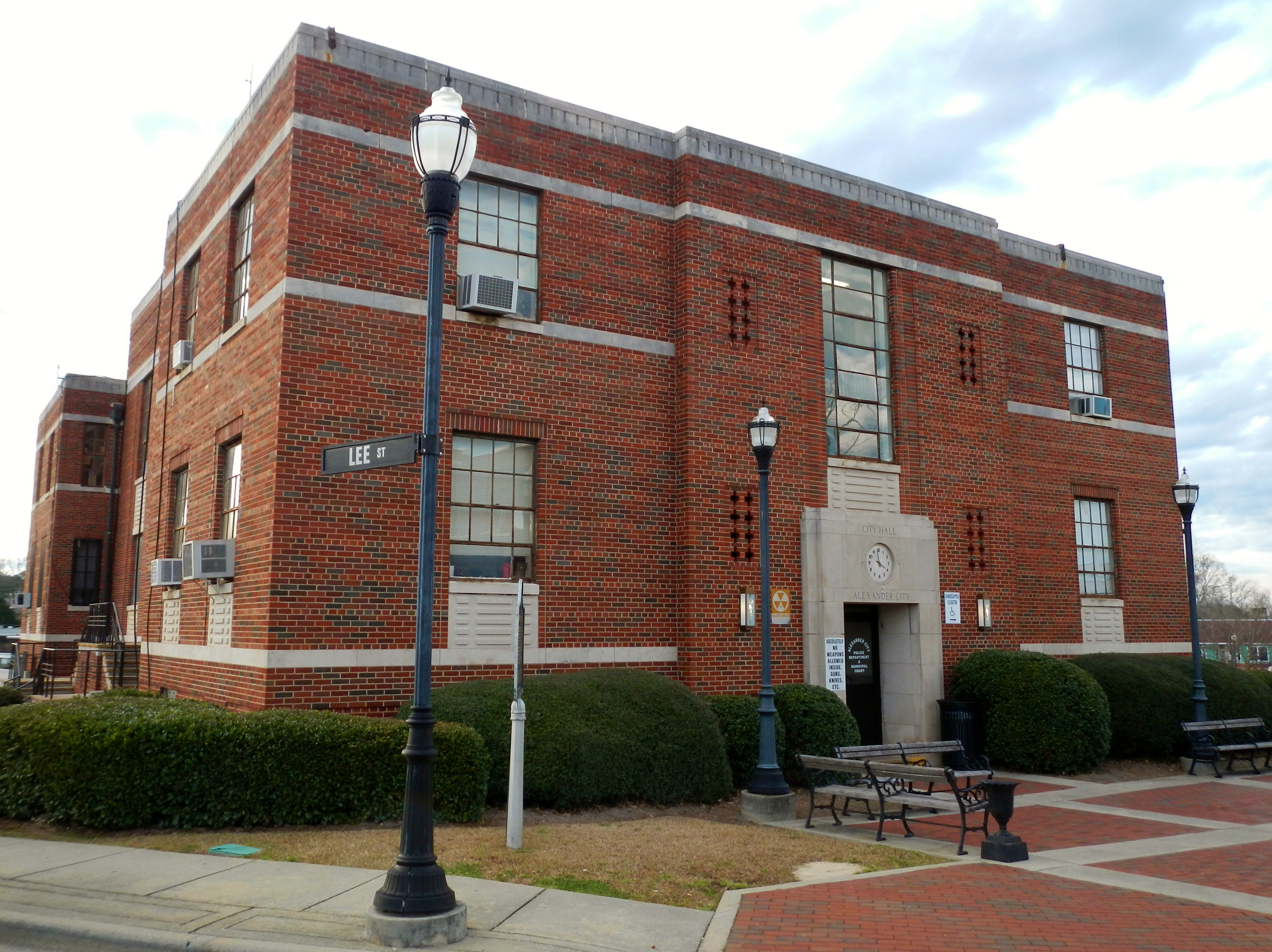 This is a photograph of the old city hall in Alexander City, AL. Now being used as Police Department and Municipal Court.